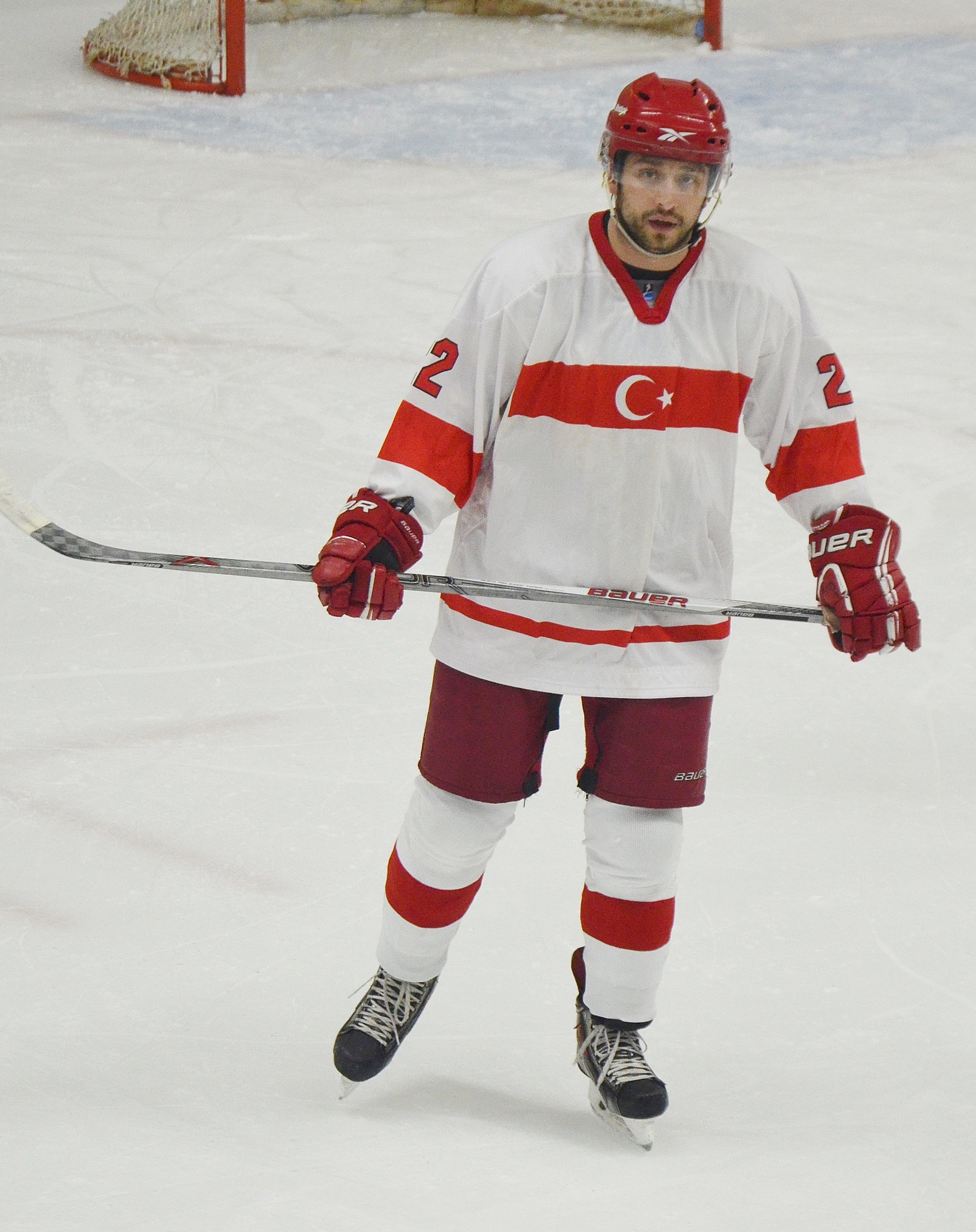 Yusuf Kars playing for Turkey national team at the 2016 IIHF World Championship Division III match against Hong Kong.